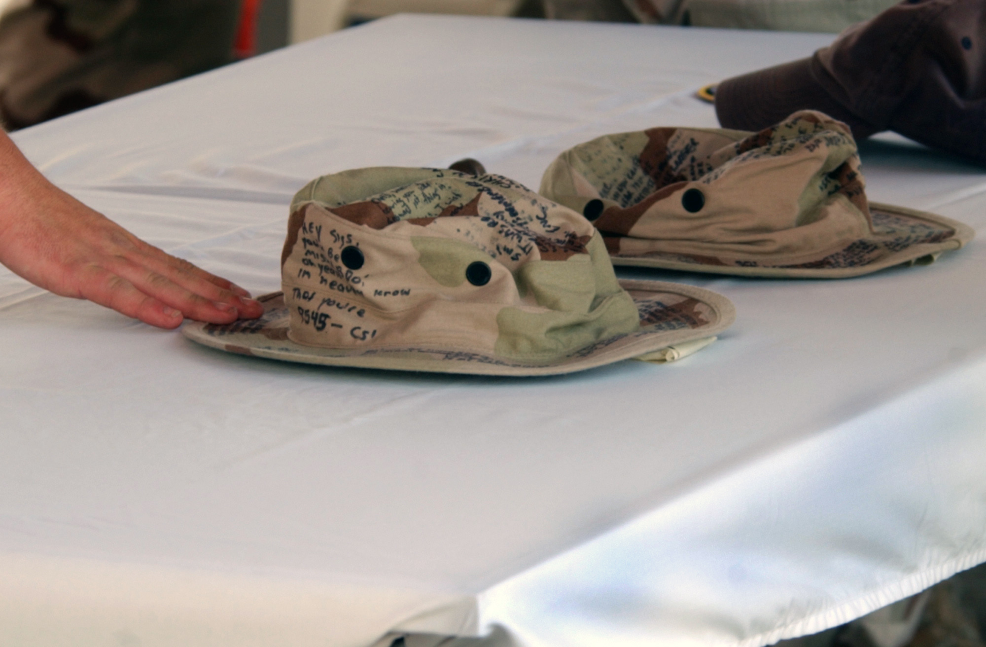 Manama, Bahrain (Apr. 29, 2004) - A Sailor touches the hat of a fallen shipmate during a memorial service alongside the coastal patrol ship USS Firebolt (PC 10). The memorial service is for Boatswain's Mate 1st Class Michael J. Pernaselli, 27, of Monroe, N.Y., Signalman 2nd Class Christopher E. Watts, of Knoxville, Tenn., and Coast Guardsman Damage Controlman 3rd Class Nathan B. Bruckenthal, 24, of Smithtown. N.Y., who were killed after an unidentified dhow exploded while participating in a Maritime Interception Operations (MIO), in the Northern Arabian Gulf. All three were part of a seven-member boarding team that boarded the dhow in accordance with standard security procedures. U.S. Navy photo by Photographer's Mate 1st Class Alan D. Monyelle. (RELEASED)